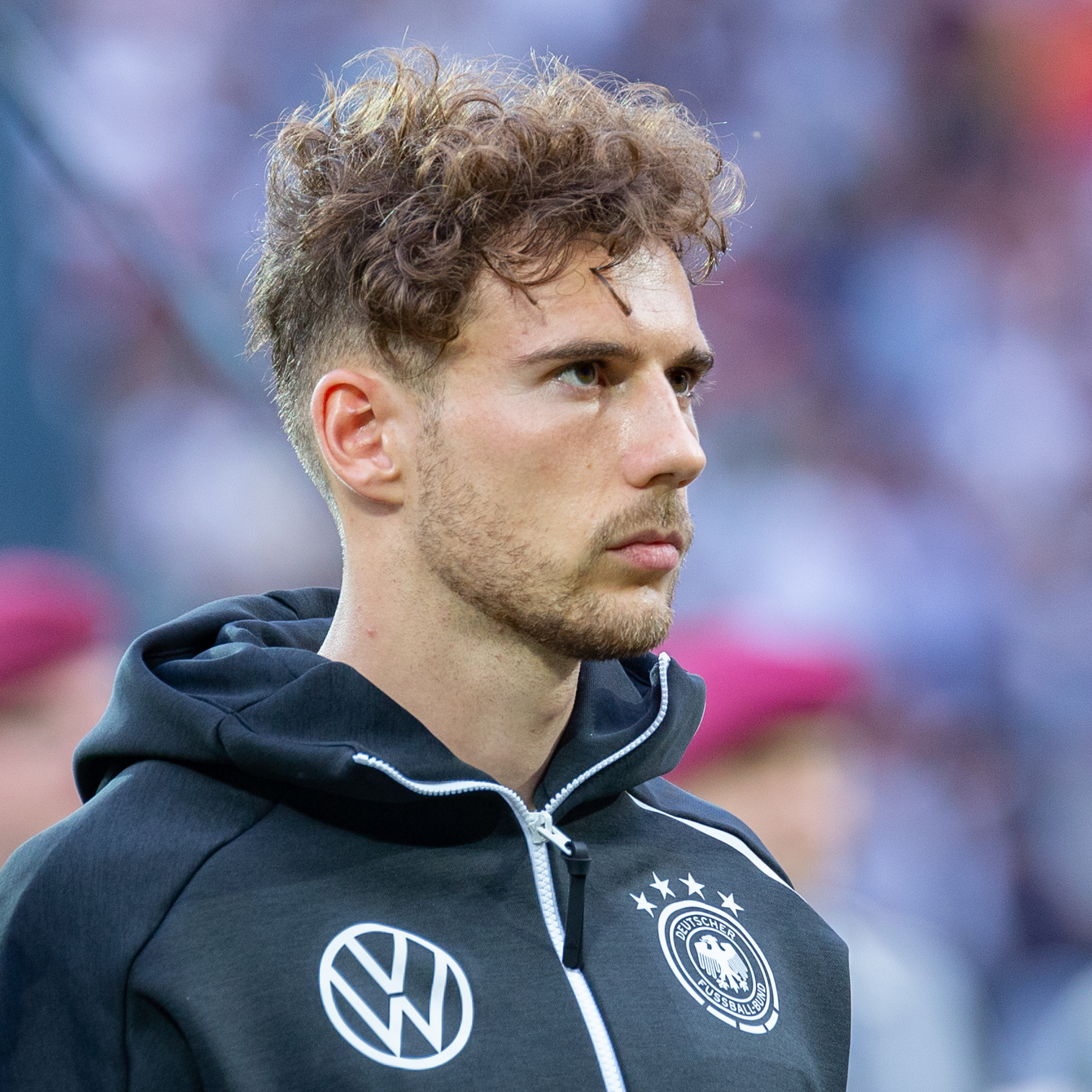 UEFA Euro 2020 qualifier Germany-Estonia